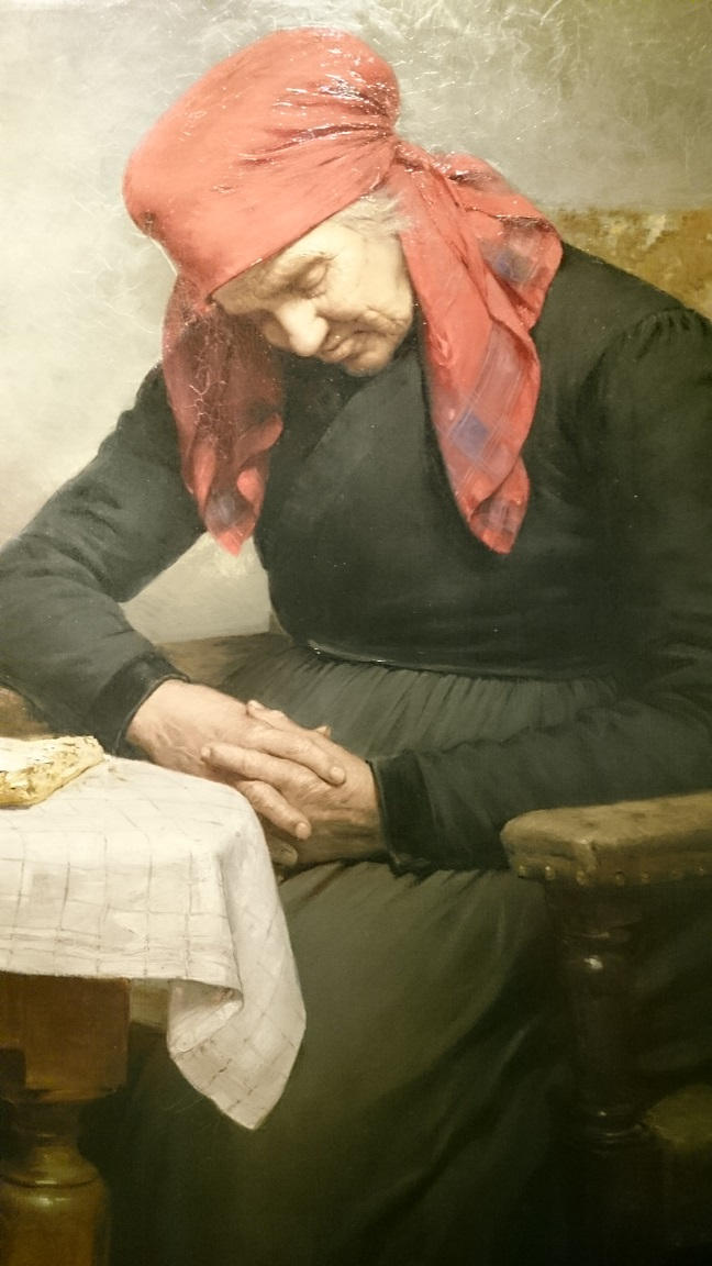 Joseph Reichlen dame 1900